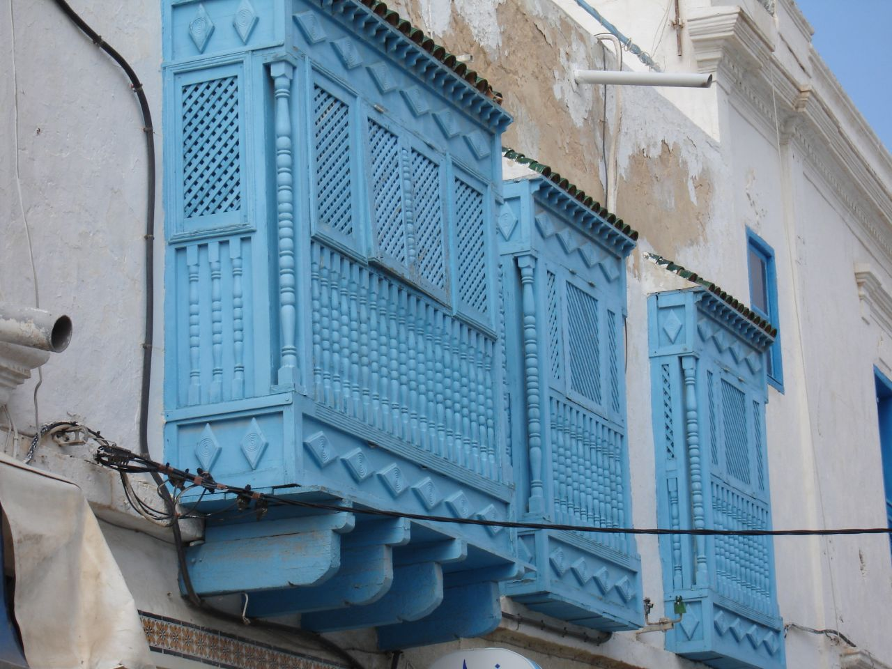 Houmt Souk